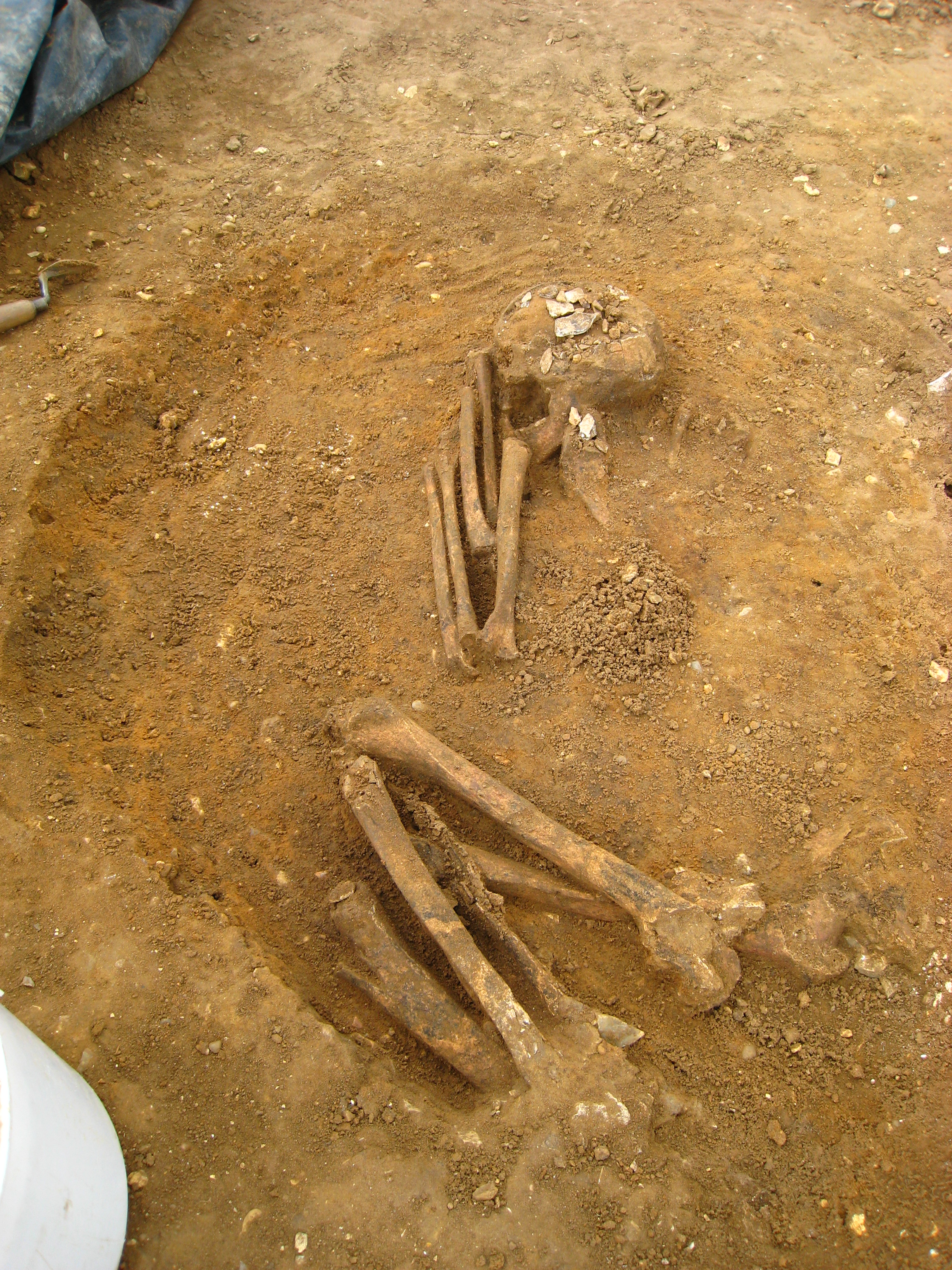 This complete crouch burial was found in the New Field. It is most likely Neolithic in origin.